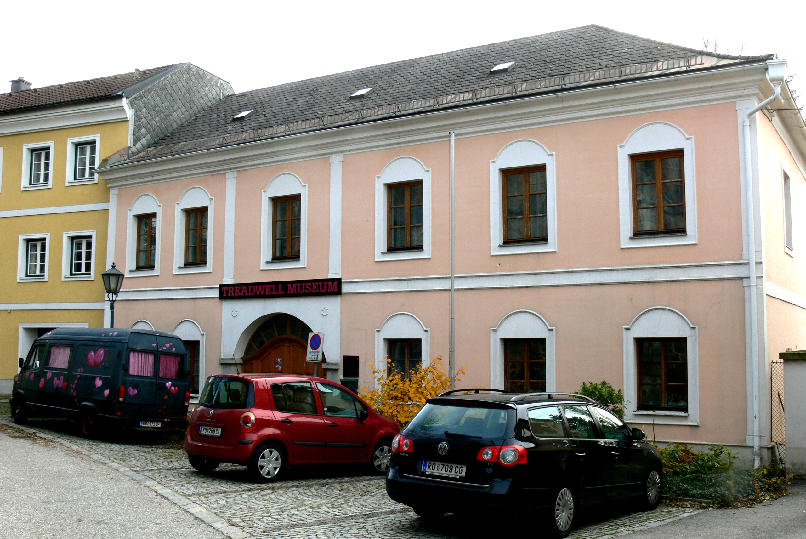 Aigen ( Upper Austria ). Former district court ( 18th century ).